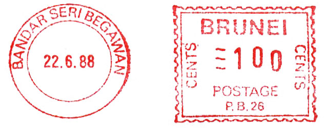 Meter stamp catalog image, Brunei type A8B